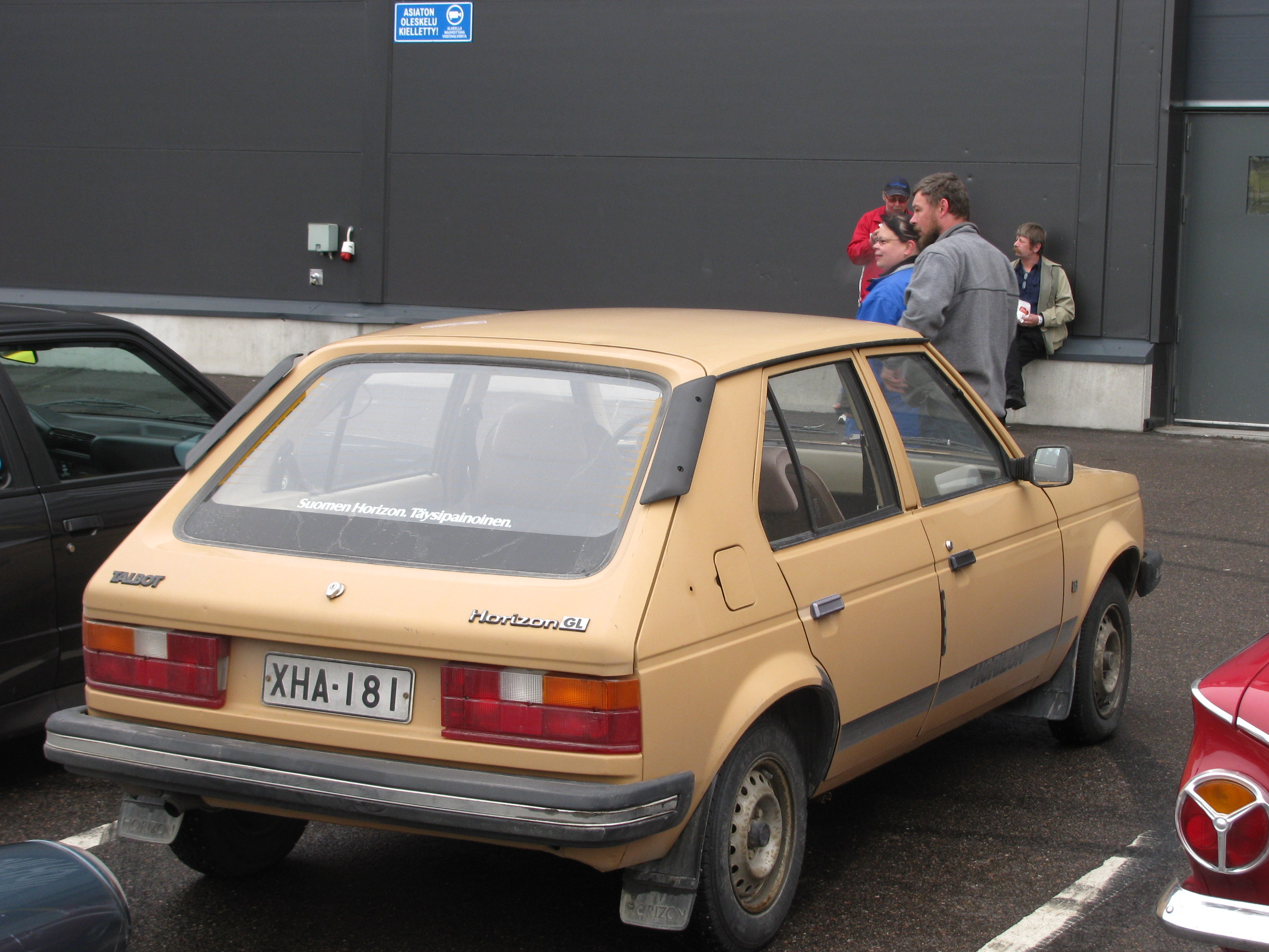 Talbot Horizon, Uusikaupunki model, Classic Motor Show parking lot in Lahti, Finland.